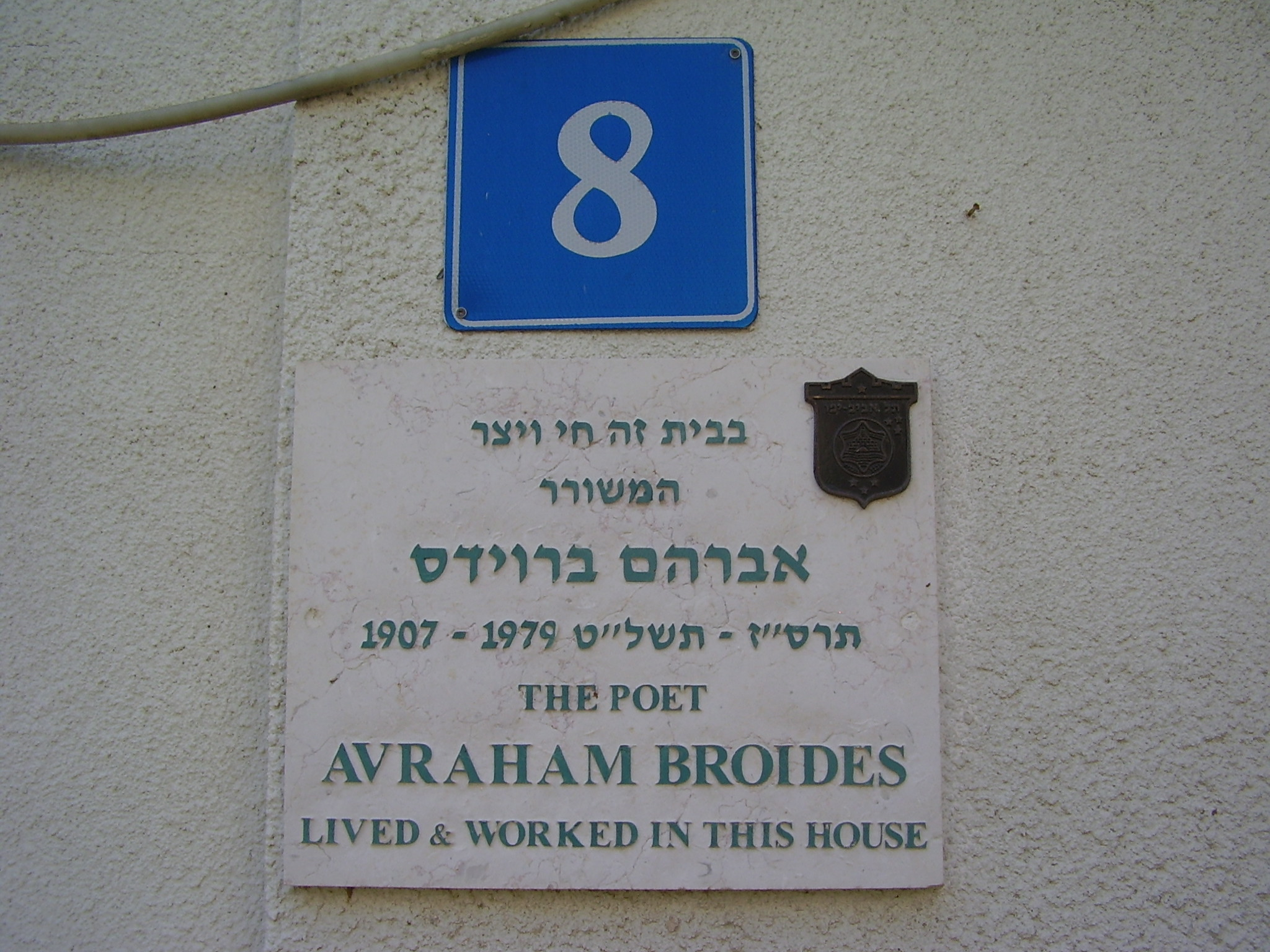 memorial plaque on abraham broides house in tel aviv